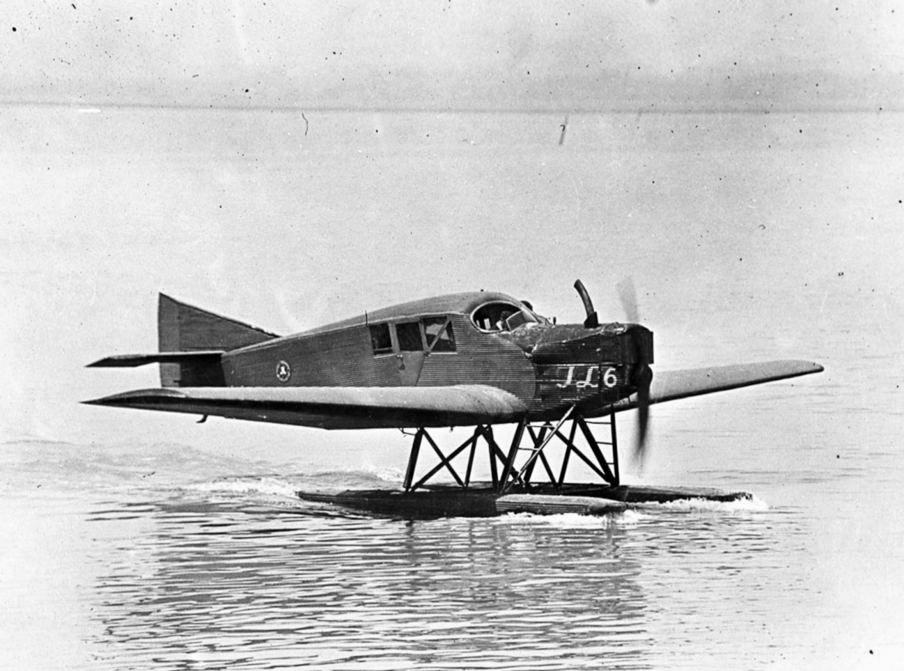 A Junkers-Larsen JL-6 at th U.S. Naval Air Station (NAS) Anacostia, Washington D.C. (USA), 10 June 1920. Three JL-6s (BuNos A5867-A5869) were acquired by the U.S. Navy and evaluated in the utility rôle on wheels and floats.